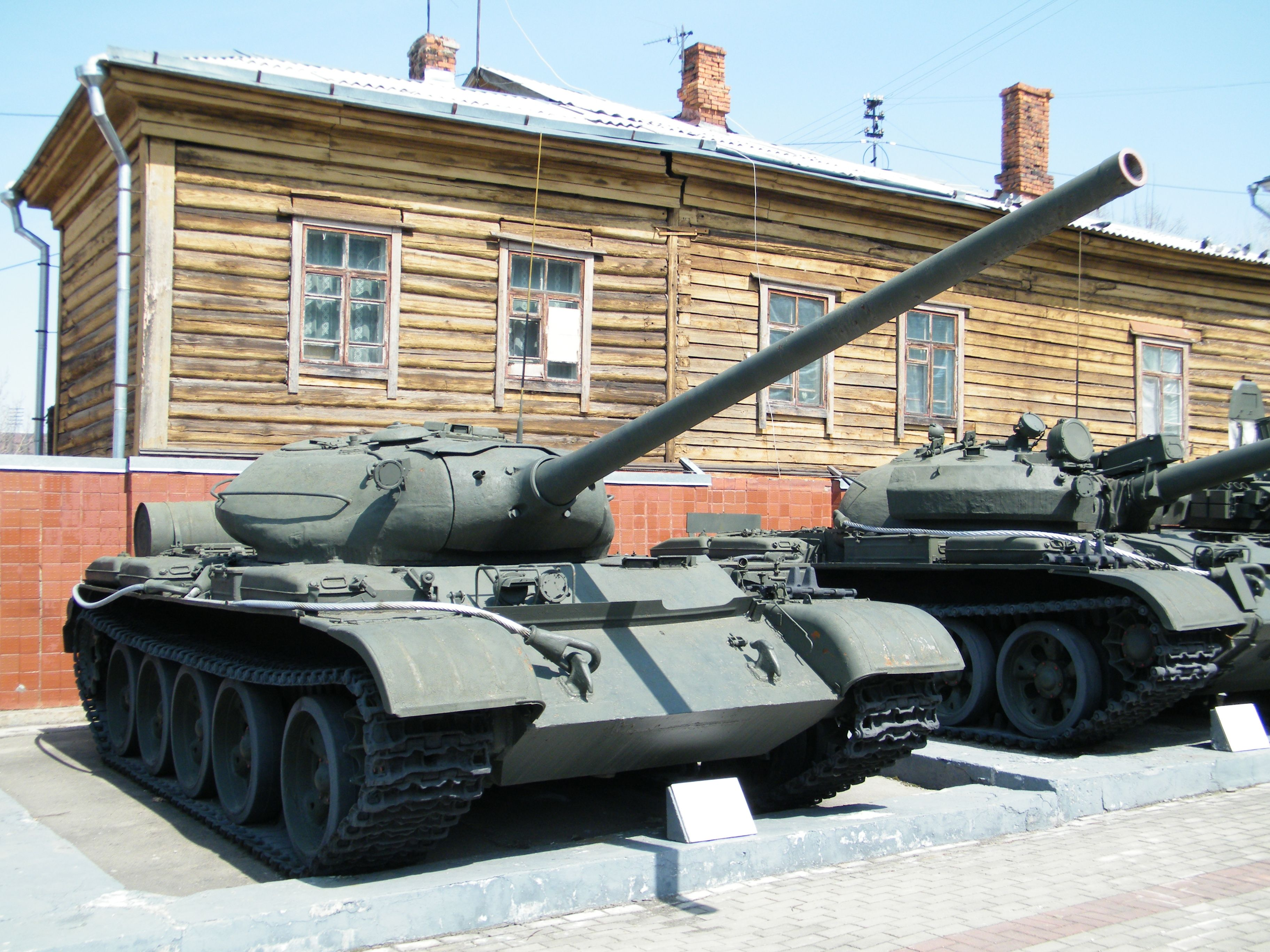 Khabarovsk Military Museum